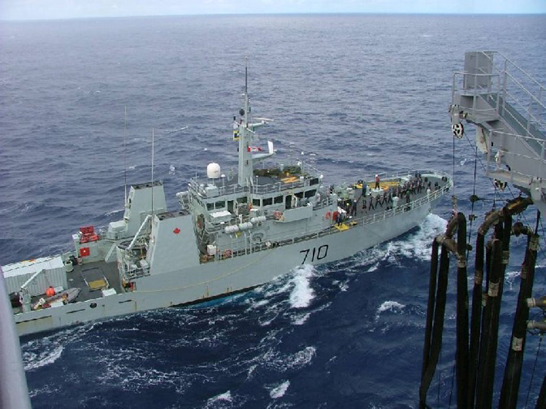 HMCS Brandon is a Canadian Kingston-class maritime coastal defence vessel. Commissioned in 1999, it is named after Brandon, Manitoba. The vessel is based out of CFB Esquimalt. When conducting mine-sweeping operations the Brandon carries a remote controlled submersible.